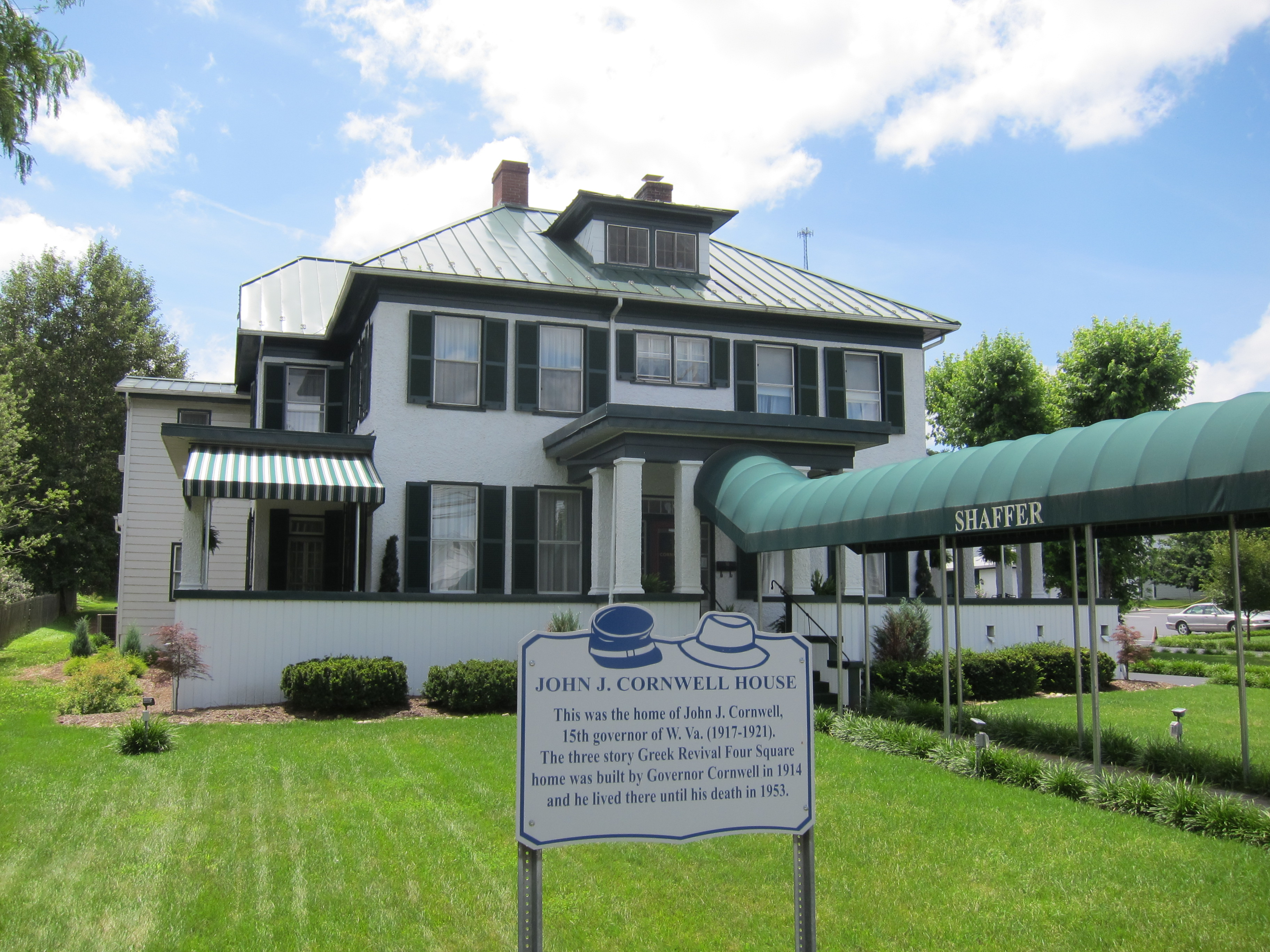 The John J. Cornwell House, built in the early 20th-century, is a historic former residential structure at 230 East Main Street in Romney, West Virginia, United States. Originally the residence of West Virginia Governor John J. Cornwell, the building houses Shaffer Funeral Home as of September 2014. Photographed by Justin A. Wilcox of Washington, D.C.